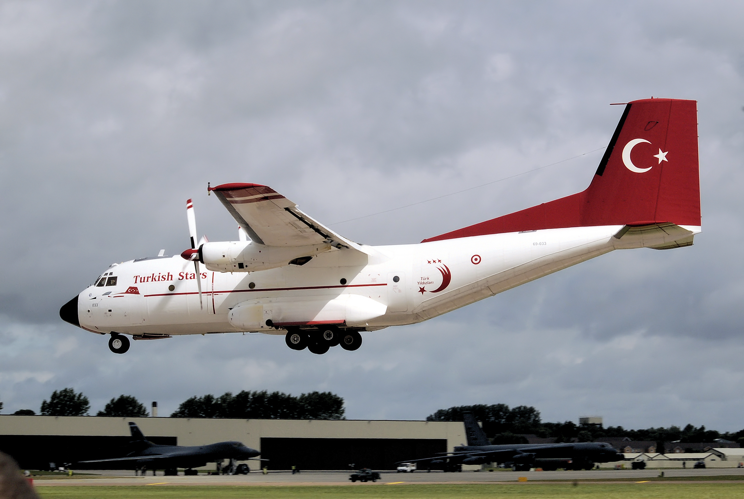 Turkish Air Force Transall C-160D (code 69-033) lands at the 2008 Royal International Air Tattoo, RAF Fairford, Gloucestershire, England. This is the support aircraft for the Turkish Stars aerobatic team and so is in their colours. A B-1 and B-52 are in the background. Taken at RIAT Fairford on the Thursday before the weekend show days. Later both show days (Saturday and Sunday) were cancelled because of waterlogged car parks. Photographed by Adrian Pingstone in July 2008 and placed in the public domain.